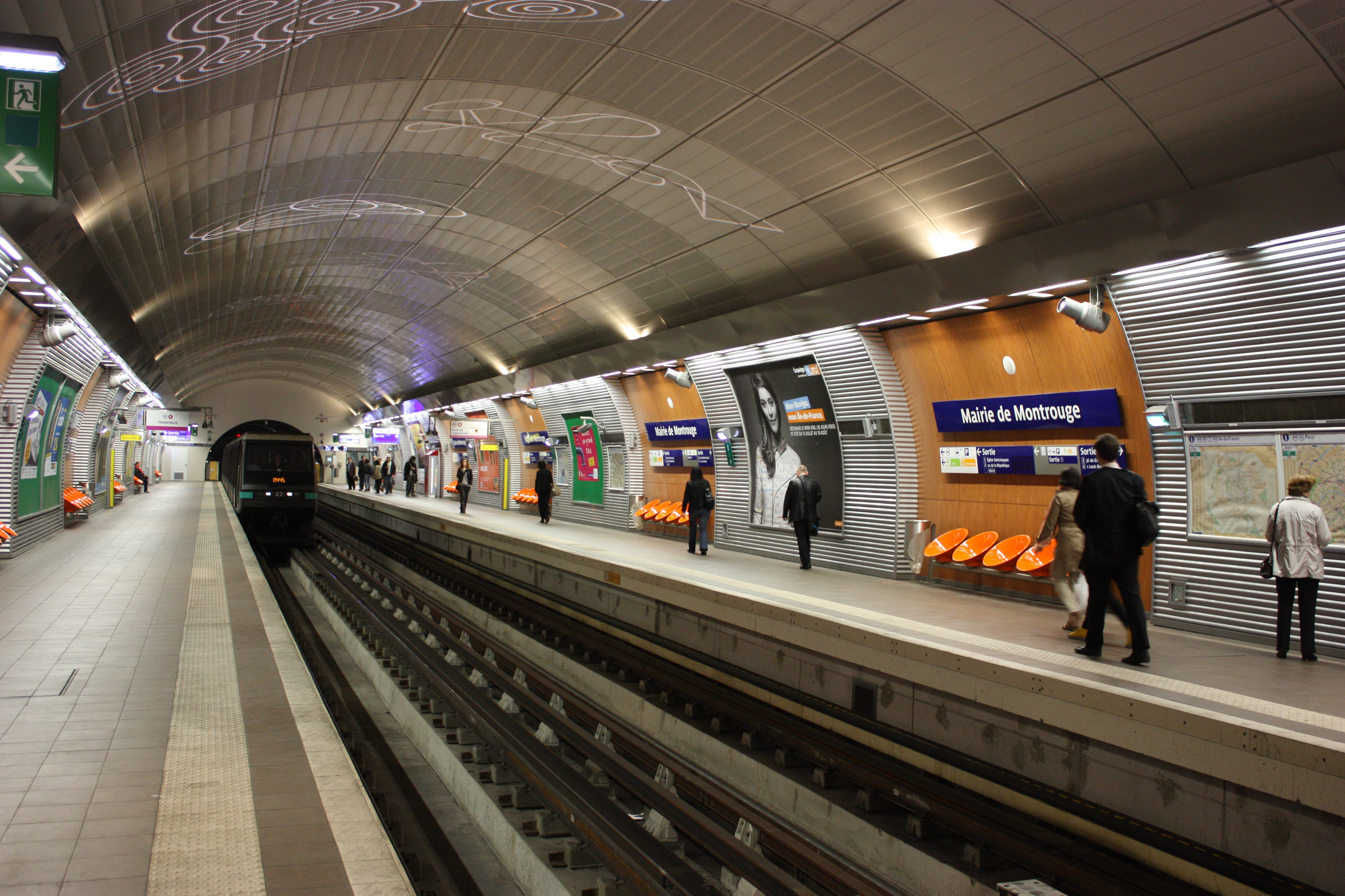 Mairie de Montrouge - Station of Paris Metro